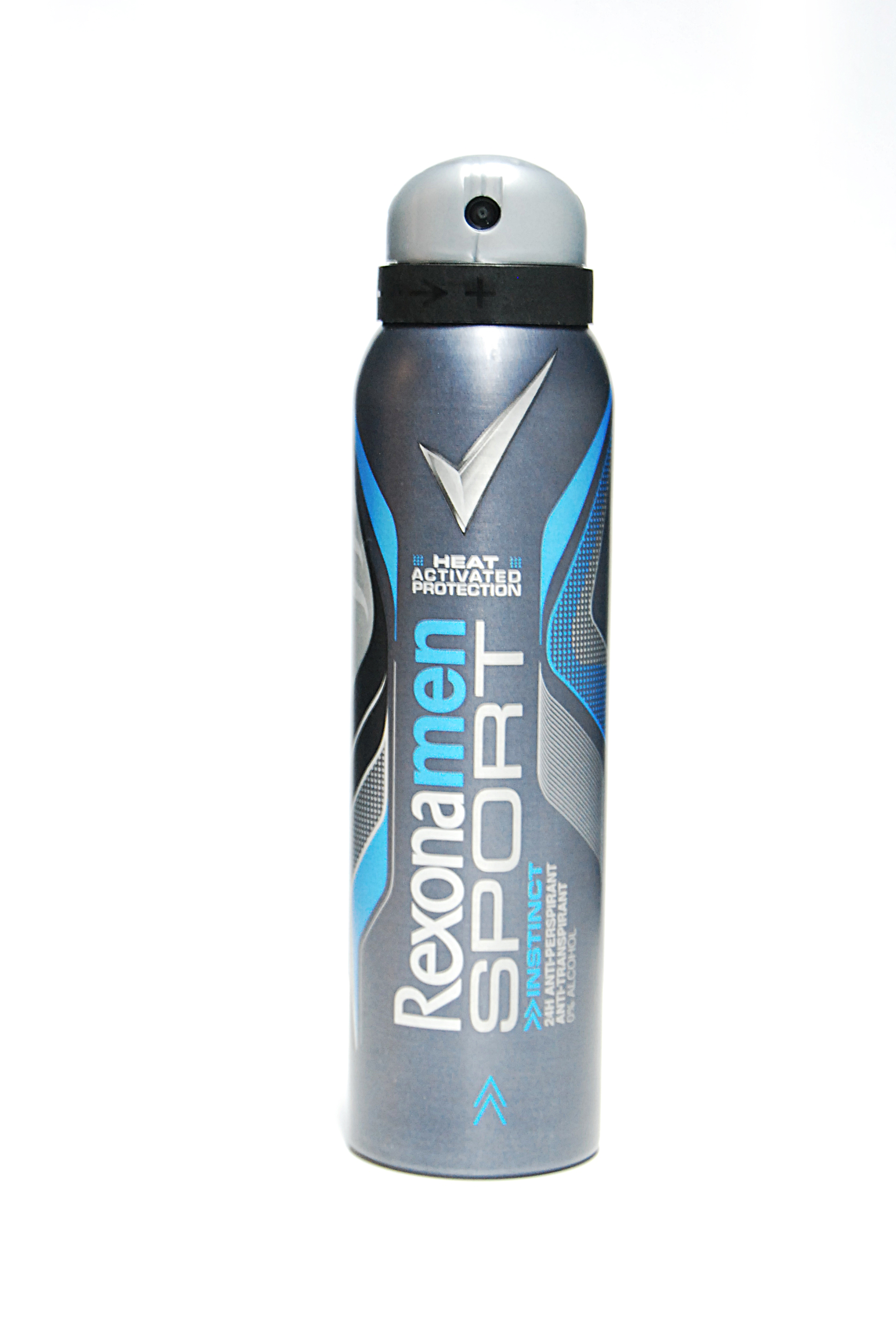 Rexonamen Sport Instinct